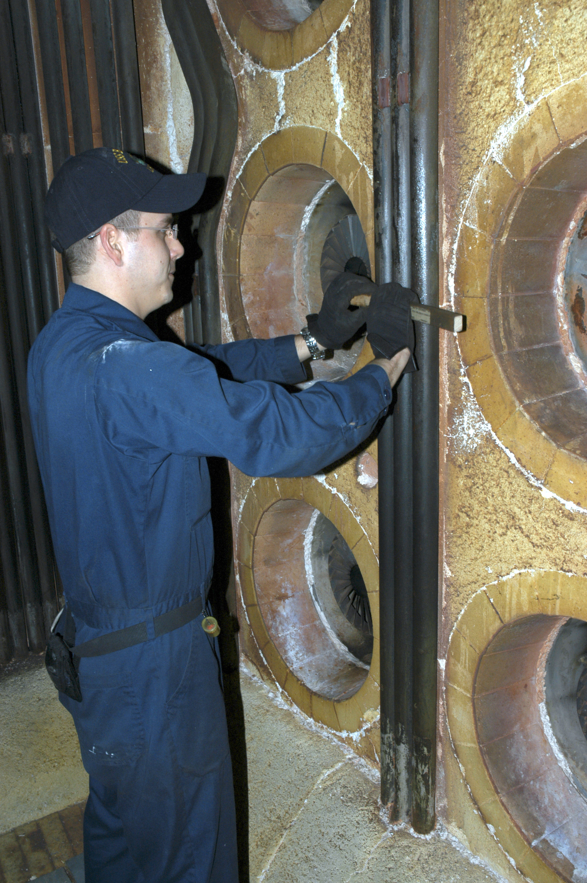 Norfolk, Va. (March 29, 2006) - Machinist Mate 3rd Class Timothy W. Roach wire brushes excess chemical build-up off the combustion tubes in the boiler on board the amphibious assault ship USS Bataan (LHD 5). The Bataan engineering department is currently performing routine inspections on the ship's boilers and engineering plant. U.S. Navy photo by Lithographer 3rd Class Justin Webster (RELEASED)